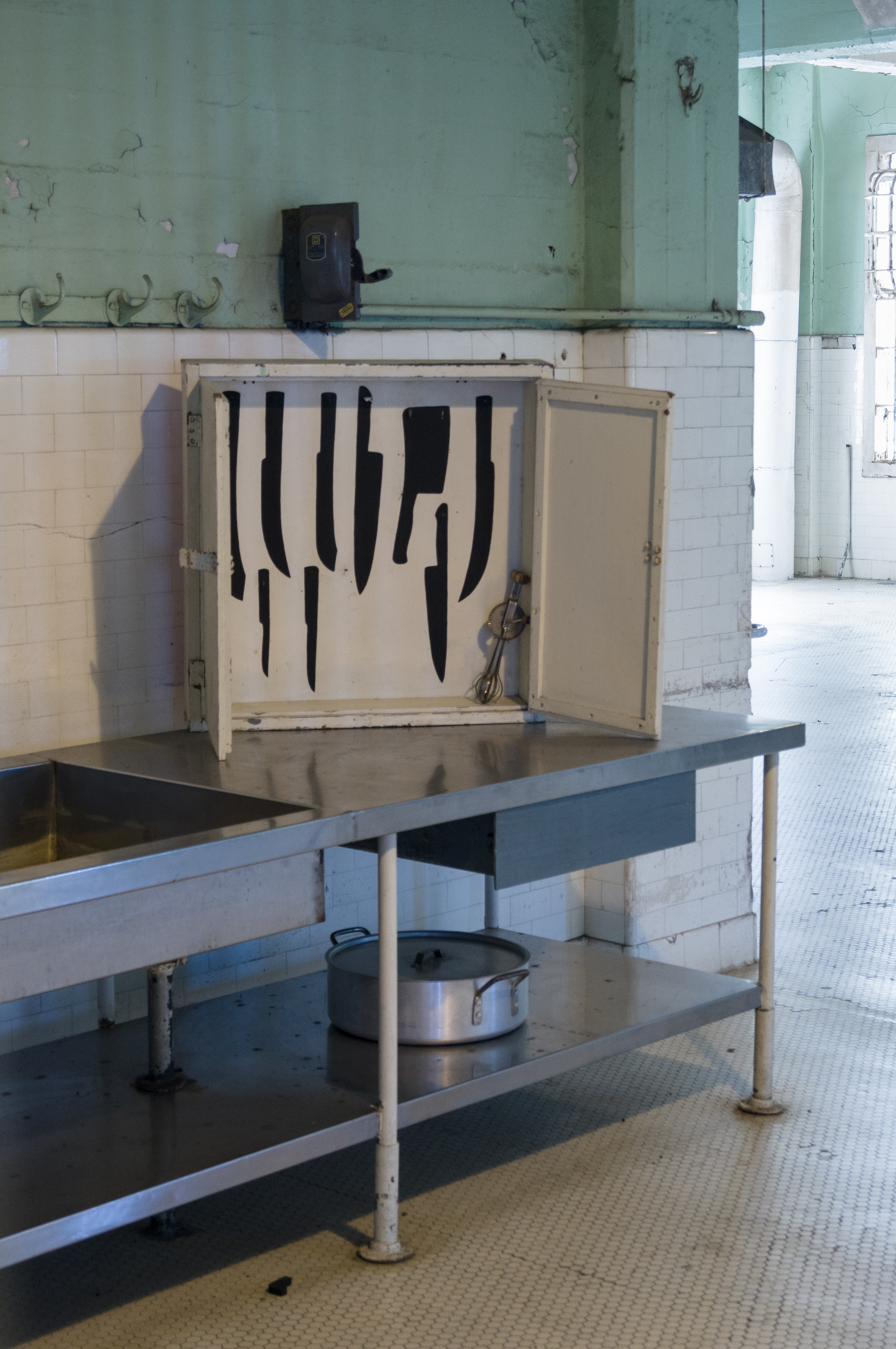 Alcatraz Island, California, USA.